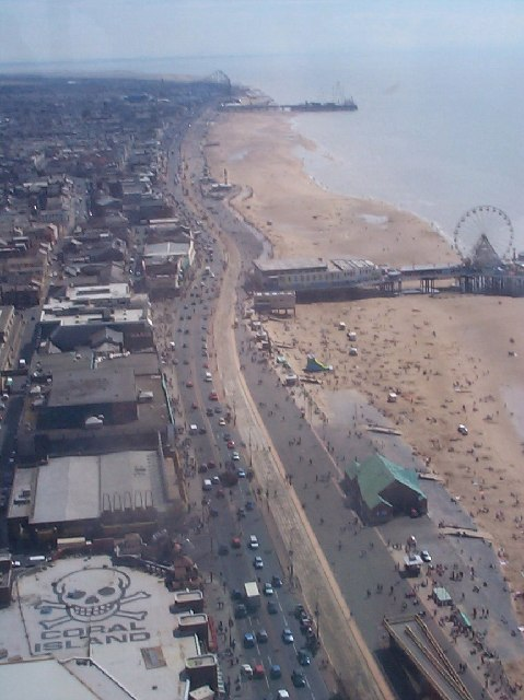 Blackpool Golden mile from above. Looking South from the top of the tower showing Central and South piers and the Pleasure beach in the background. Distant view of the ribble estuary.